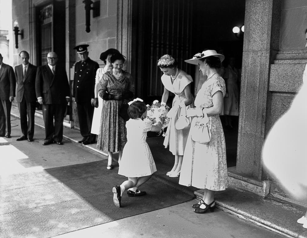 Presenting flowers to The Queen outside Brisbane City Hall in March 1954 A young girl curtsies as she presents a bouquet to Queen Elizabeth II.